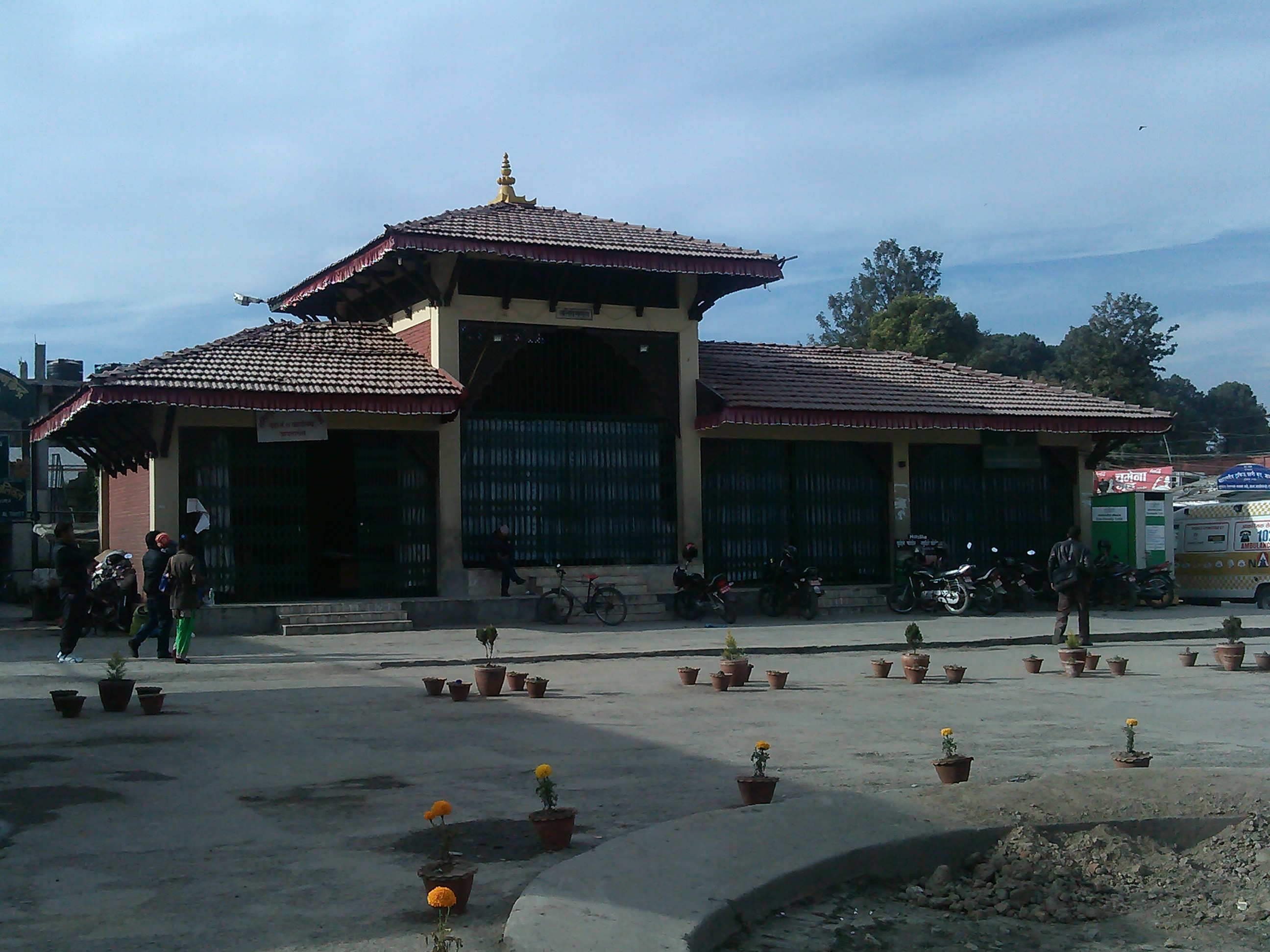 Jawalakhel Chowk